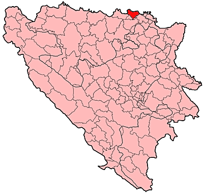 Municipality of Odžak in Bosnia and HerzegovinaBosanski: Općina Odžak u Bosni i Hercegovini